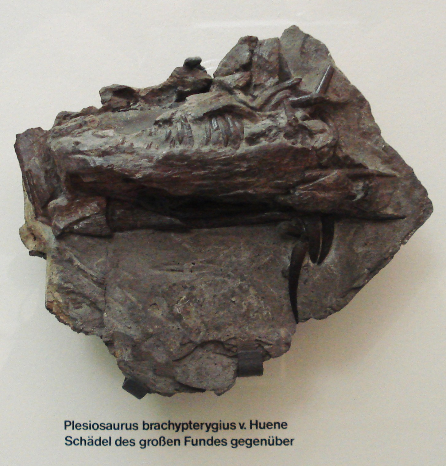 fossil of Hydrorion (formerly plesiosaurus) brachypterigius